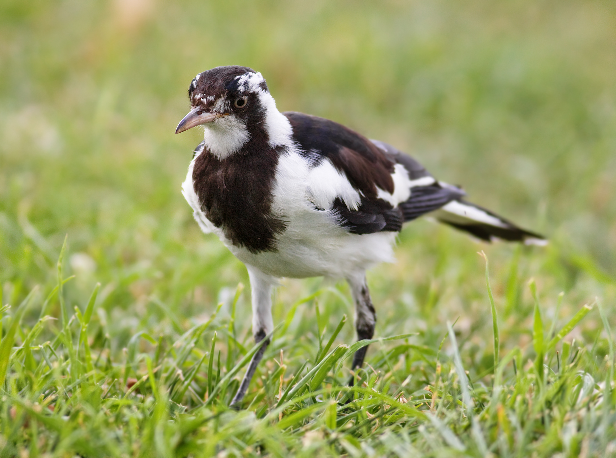 Magpie-lark (Grallina cyanoleuca), Female, Near Lake Burley-Griffin, Canberra, Australian Capital Territory, Australia